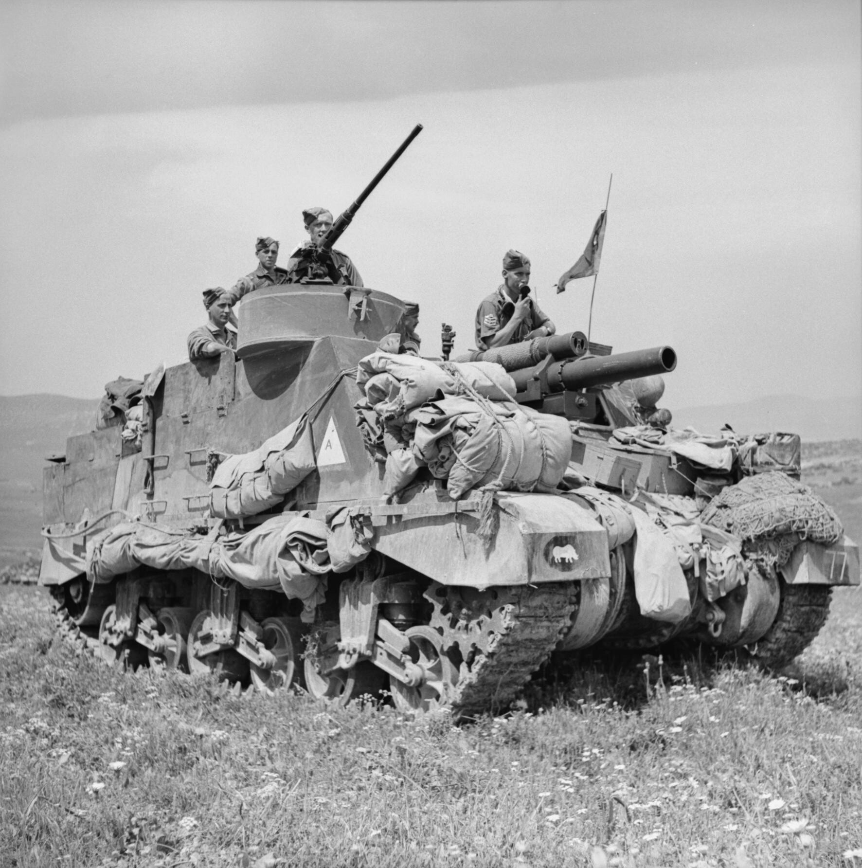 The British Army in Tunisia 1943 Priest 105mm self-propelled gun of 11th Royal Horse Artillery (Honourable Artillery Company), 1st Armoured Division, 22 April 1943.